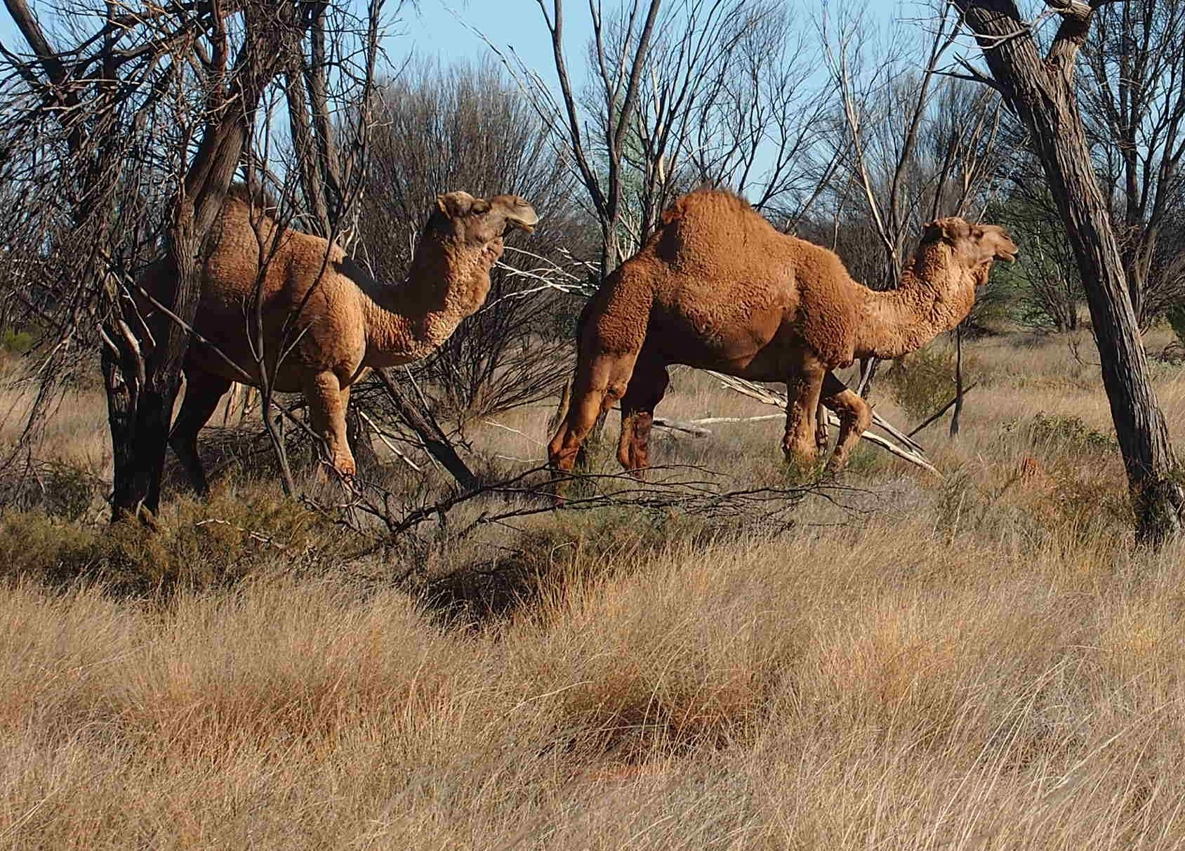 Feral camels, southern NT